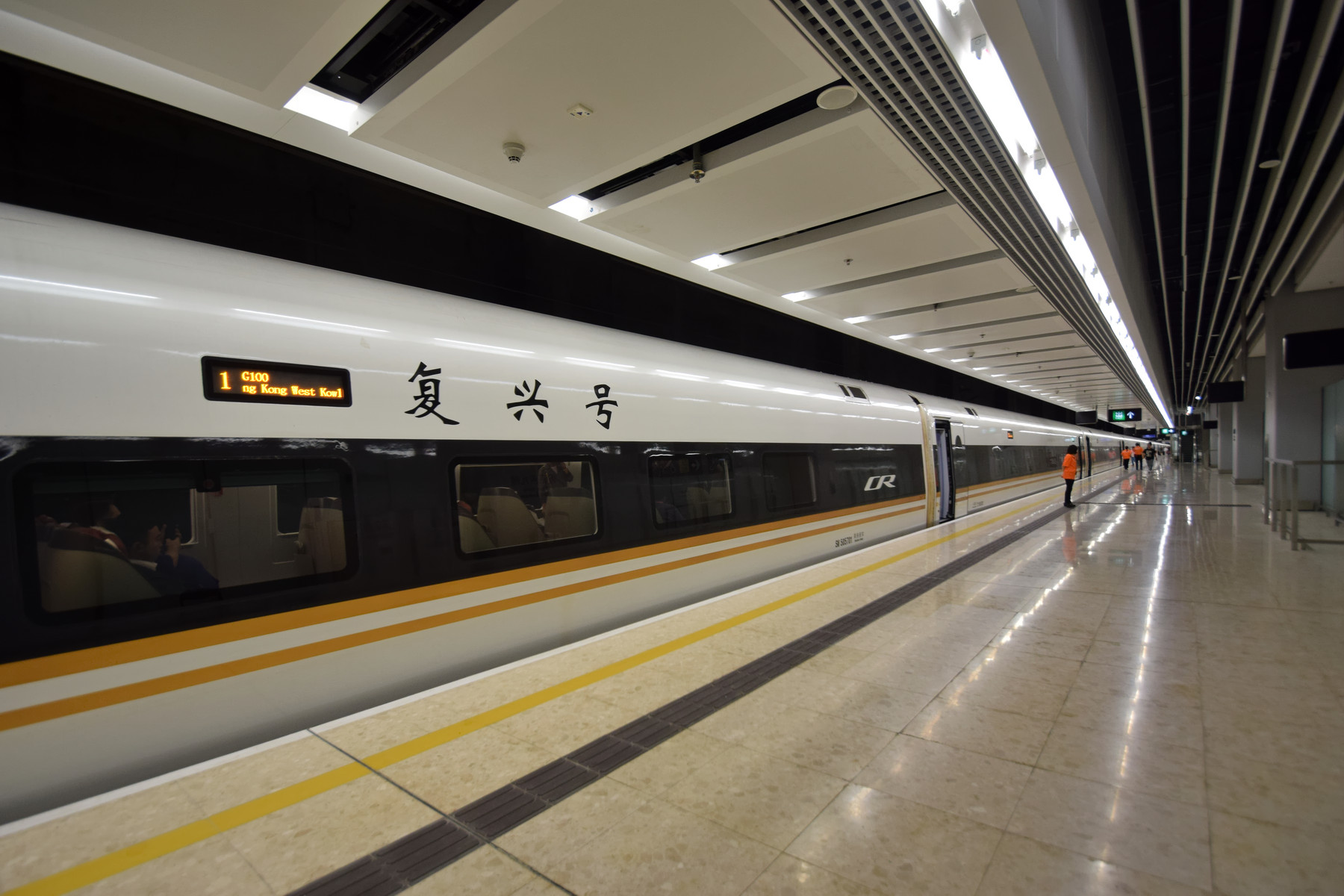 G100 CR400BF-A-5057 EMU was stopping at Platform 8 of Hong Kong West Kowloon Station.